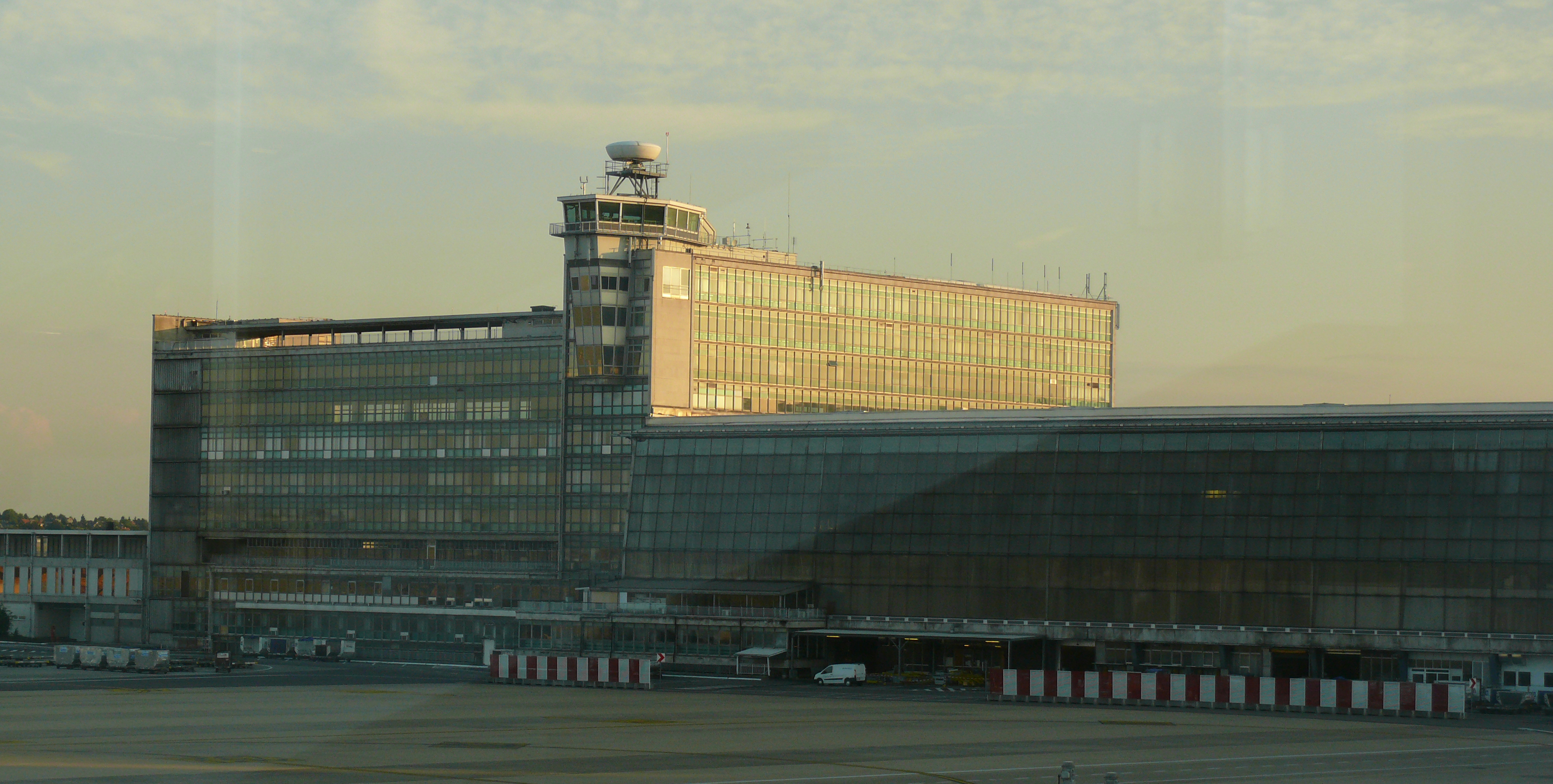 Old terminal building at Zaventem Brussels Airport. Oude terminal van Zaventem Brussels Airport.